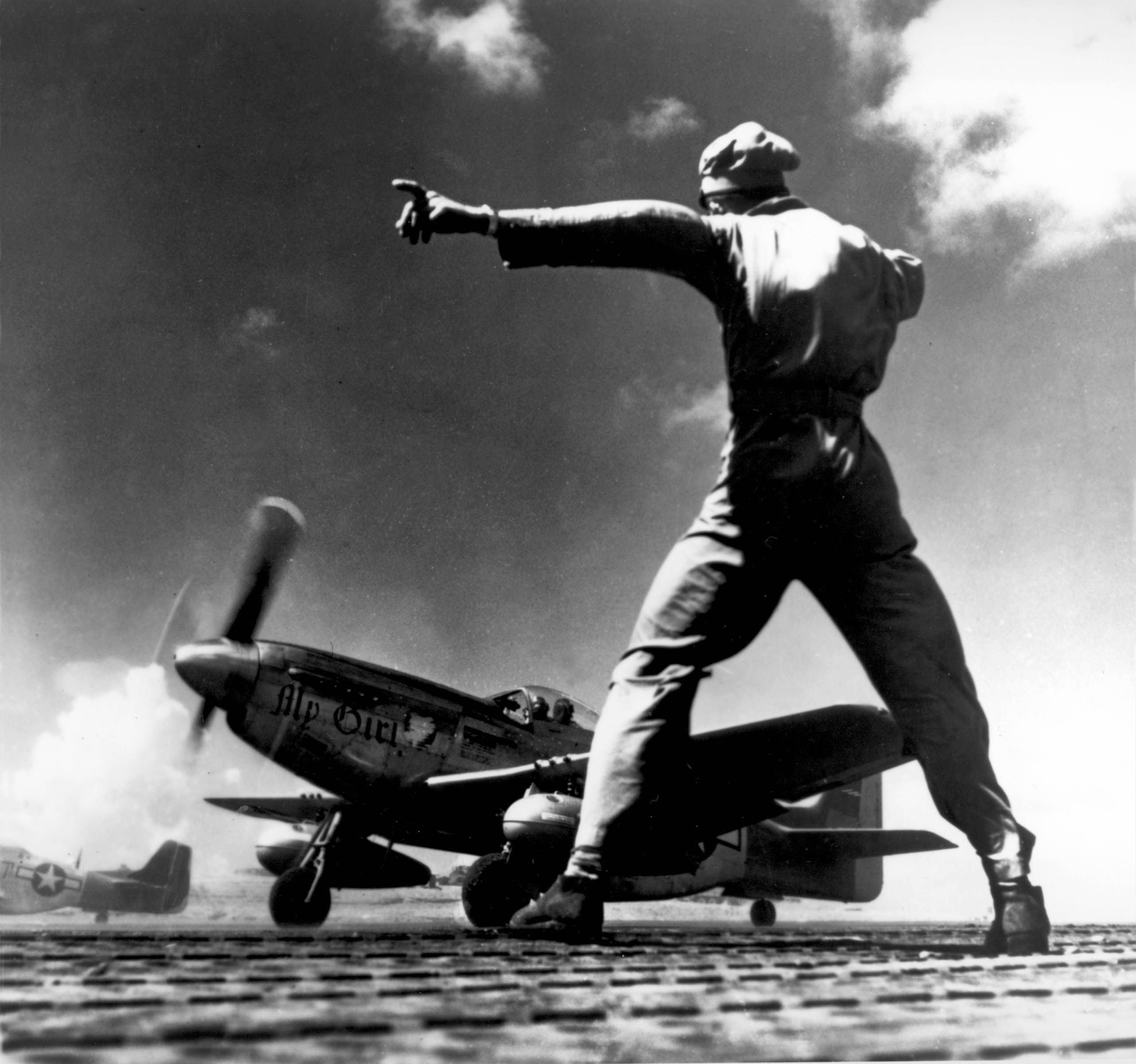 A P-51D Mustang fighter named "MY GIRL" takes off from Iwo Jima.